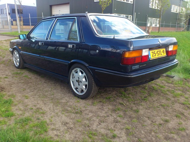 1985 Lancia Prisma 1600 serie 1